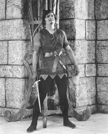 Douglas Fairbanks as Robin Hood; a screenshot from the American film Robin Hood (1922).